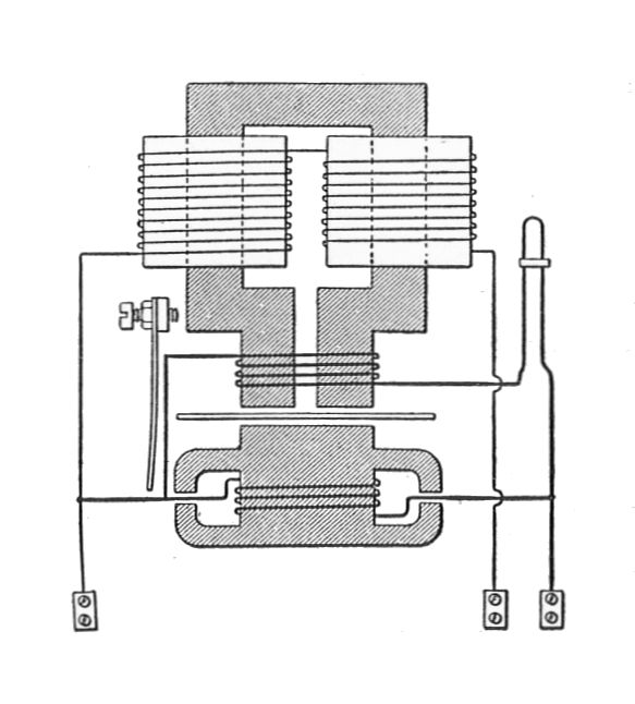 Thomson electricity meter, circuit (Rankin Kennedy, Electrical Installations, Vol II, 1909).jpg